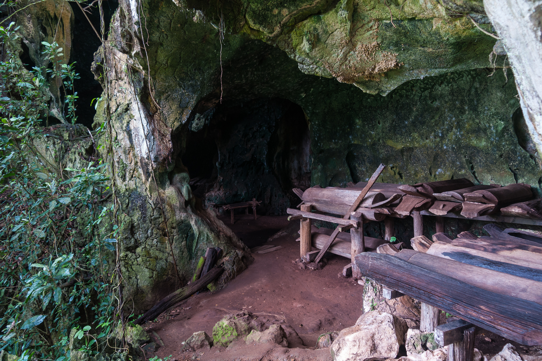 Kg. Batu Putih, Sabah: Agop Batu Tulug (Batu Tulug Caves) in District Kinabatangan; Wooden Coffins